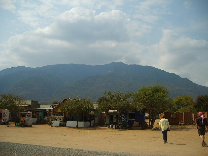 My own work